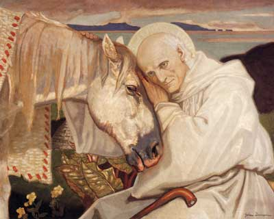 St. Columba Bidding Farewell to the White Horse by John Duncan